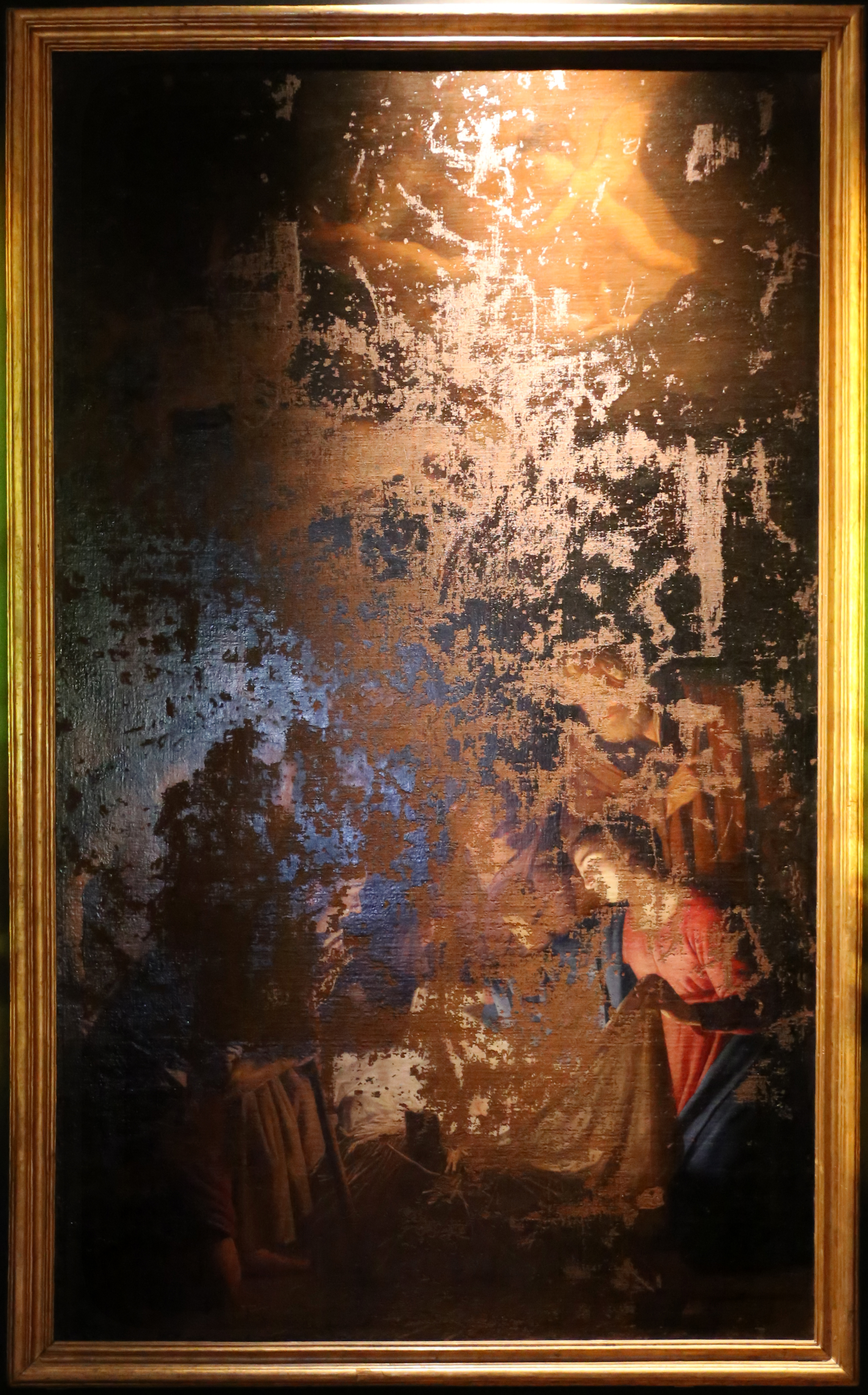 paintings in the Uffizi Gallery